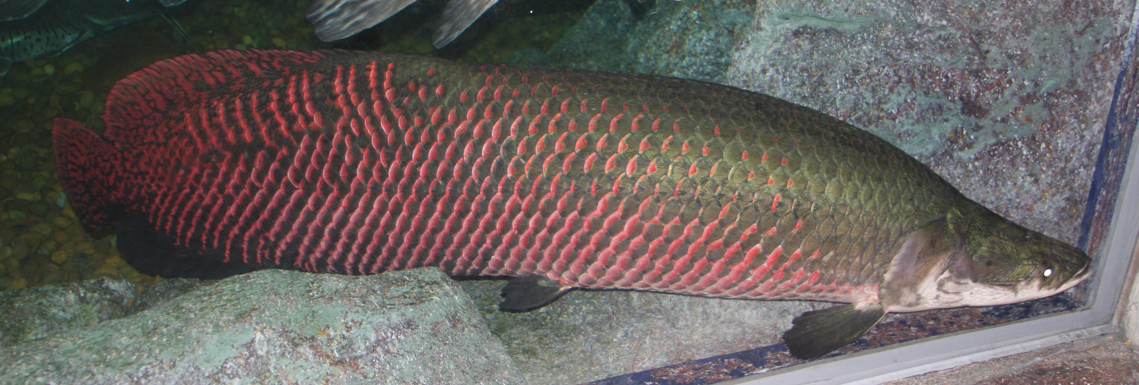 Arapaima gigas in the Siam Centre, Bangkok